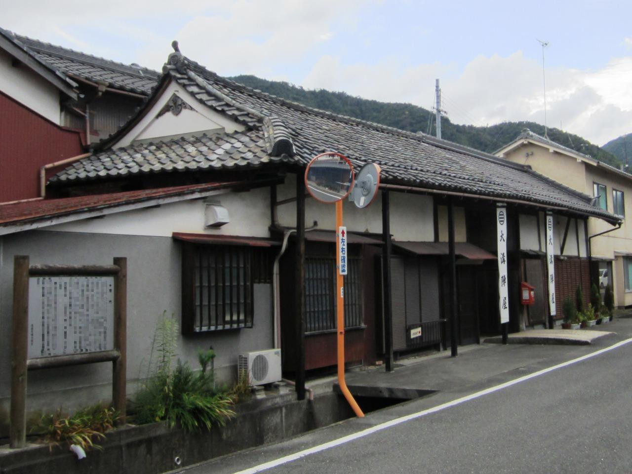 Ōmizo Jinya in Takashima, Shiga.